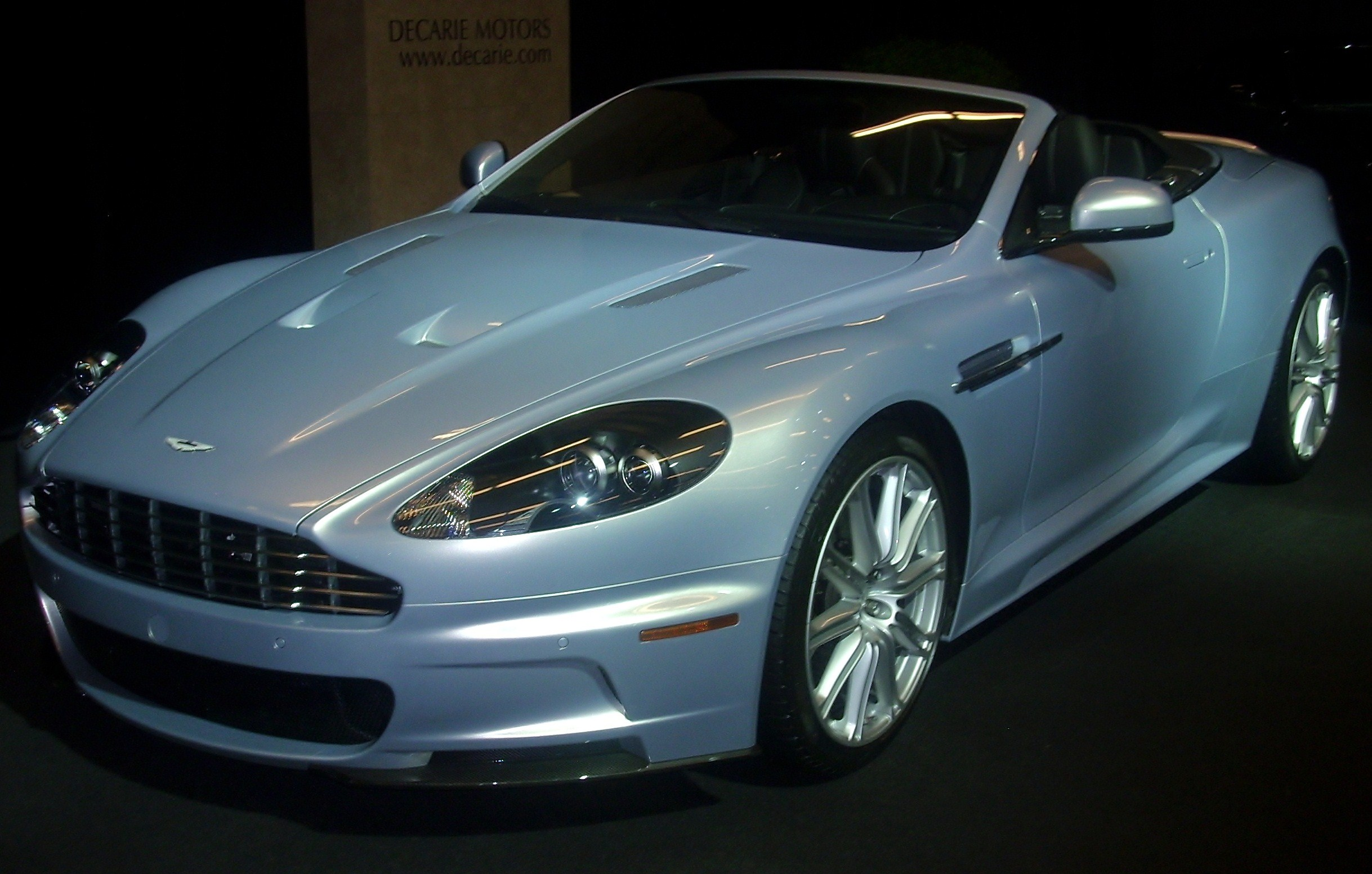 2010 Aston Martin DBS Volante photographed in Montreal, Quebec, Canada at the 2010 Montreal International Auto Show.